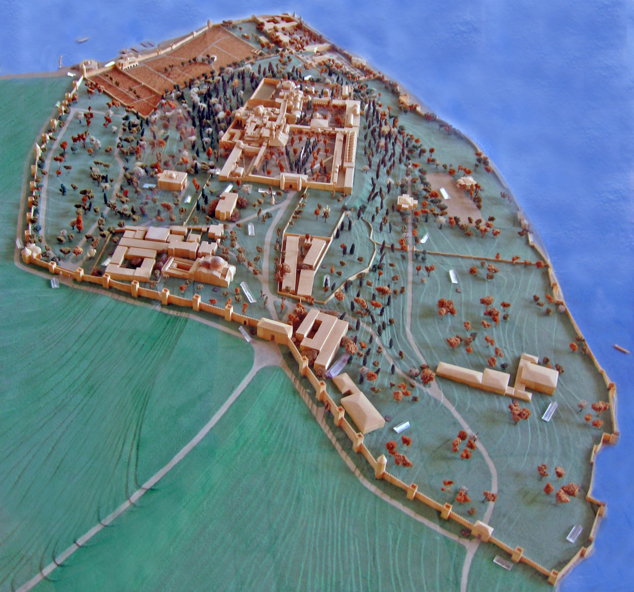 Architectural model of Topkapı Palace as it appeared around the 17th to 18th century. Model is exhibited at the palace itself.